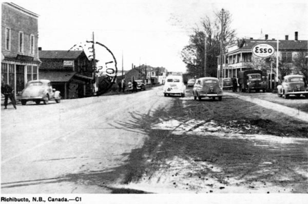 Post card of the Main St. in Richibucto, New Brunswick, circa 1940.